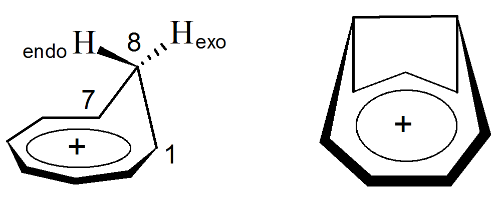 Homotropylium Cation and Bishomotropylium Cation side by side